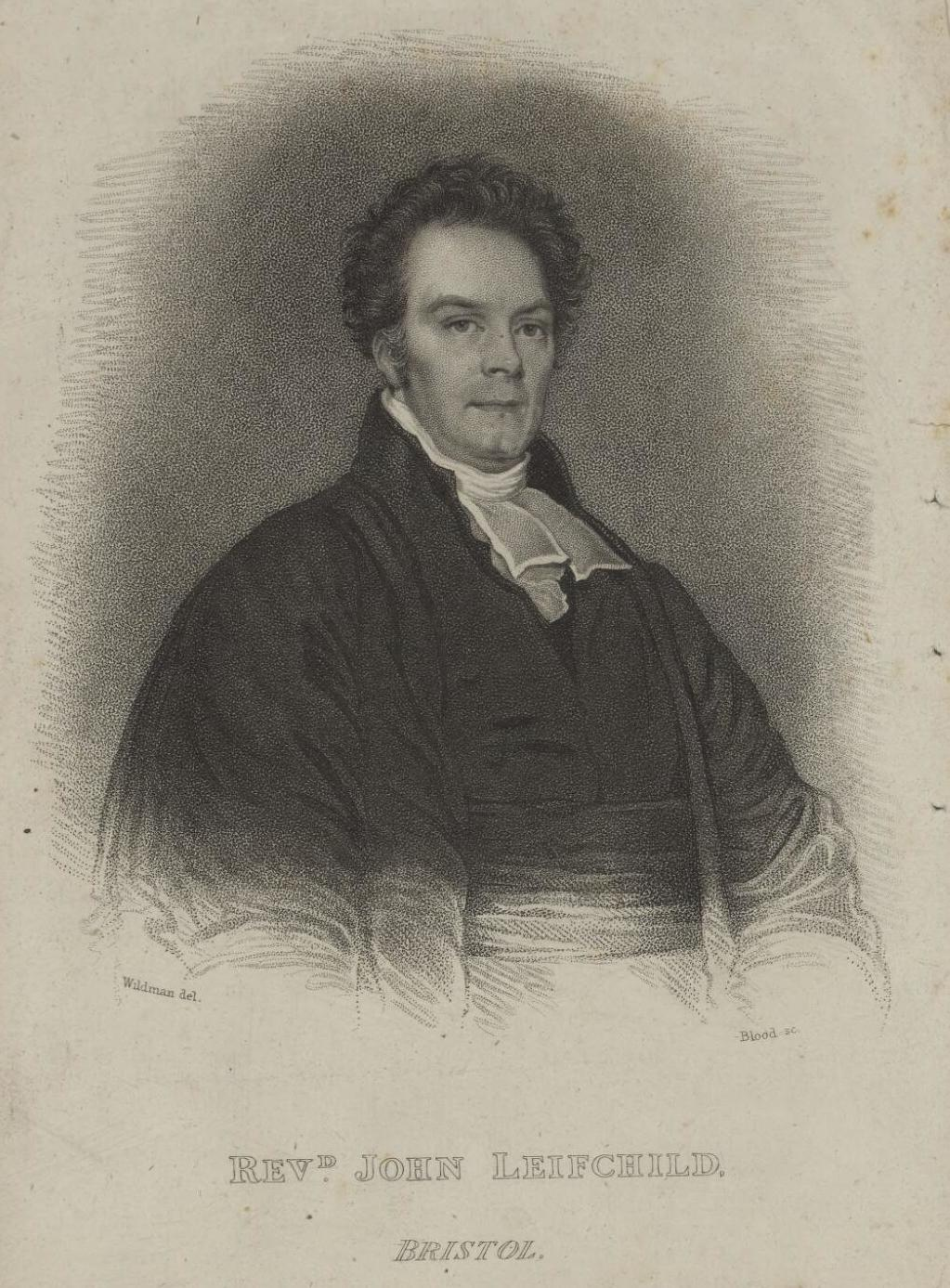 A portrait from the Welsh Portrait Collection at the National Library of Wales. Depicted person: John Leifchild